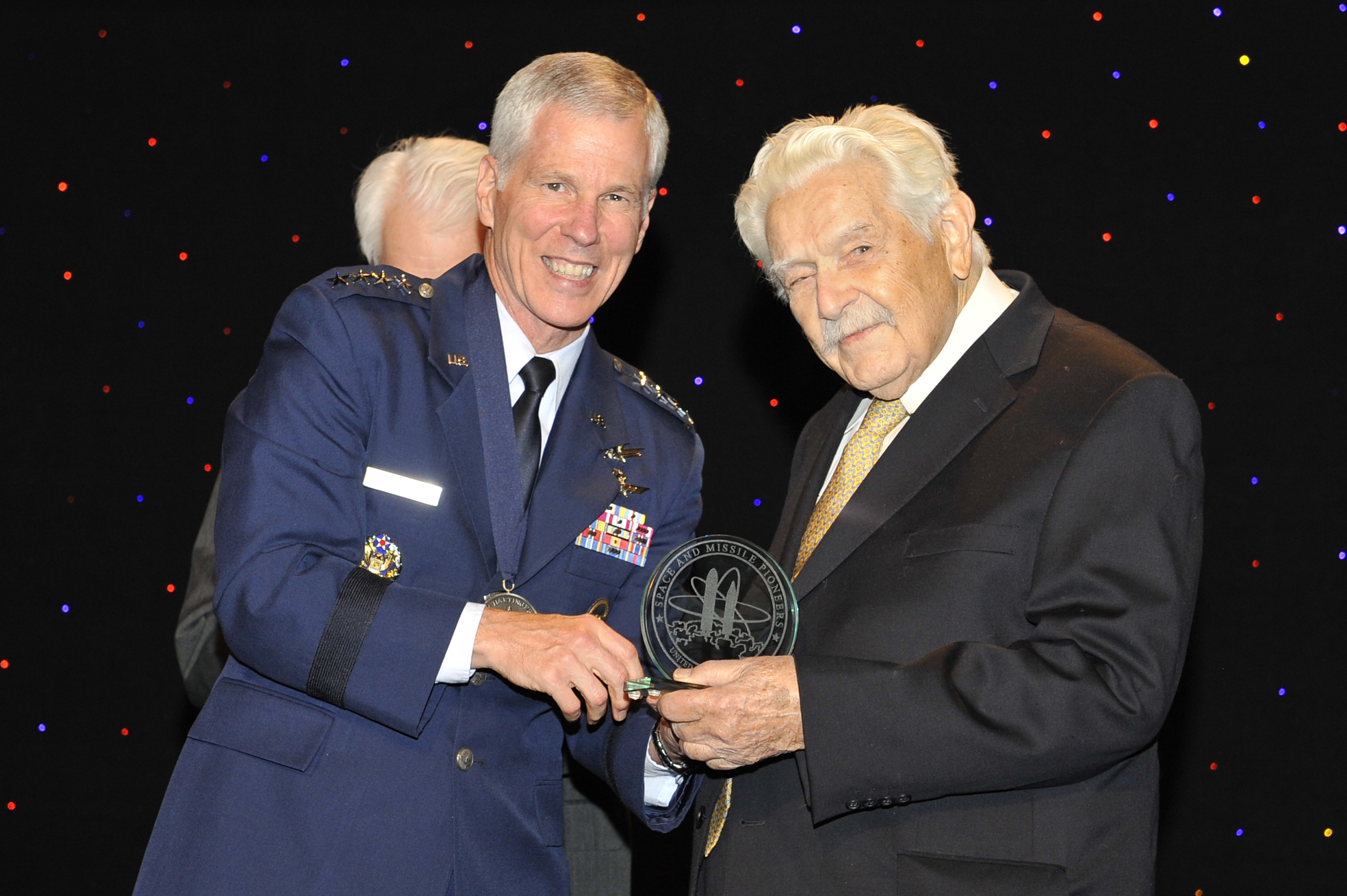 Mr. Wilford Stapp accepts the Air Force Space and Missile Pioneers award from General William Shelton, Air Force Space Command commander, on behalf of his brother, Colonel John Paul Stapp, during a banquet hosted by the Space Foundation in honor of Air Force Space Command’s 30th anniversary celebration Sept. 14, 2012, Colorado Springs, Colo. The award recognizes individuals for their significant role in the history of Air Force space and missile programs. (U.S. Air Force photo/Staff Sgt. Christopher Boitz/Released)